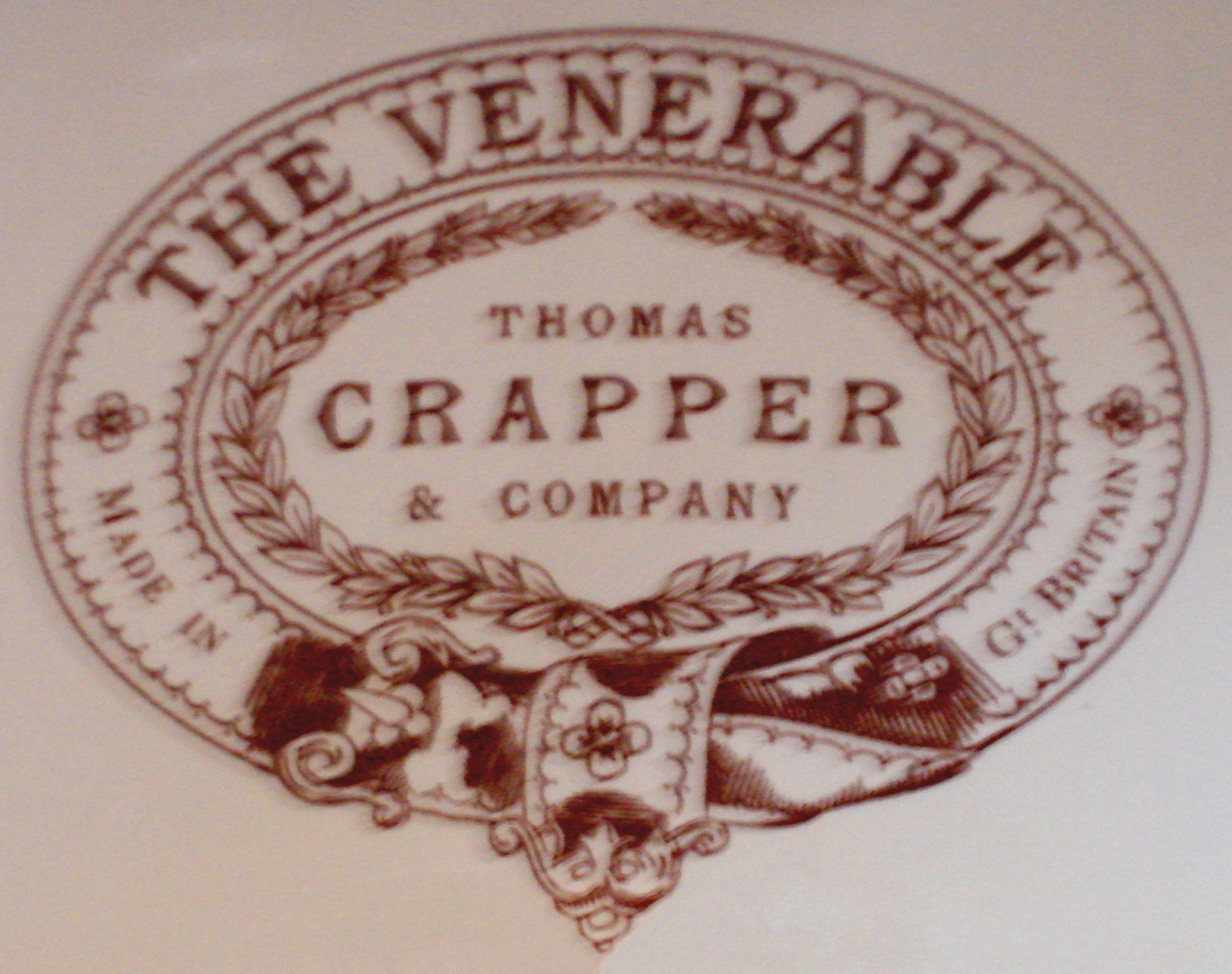 Thomas Crapper Toilet at the Victor Horta Museum, Brussels